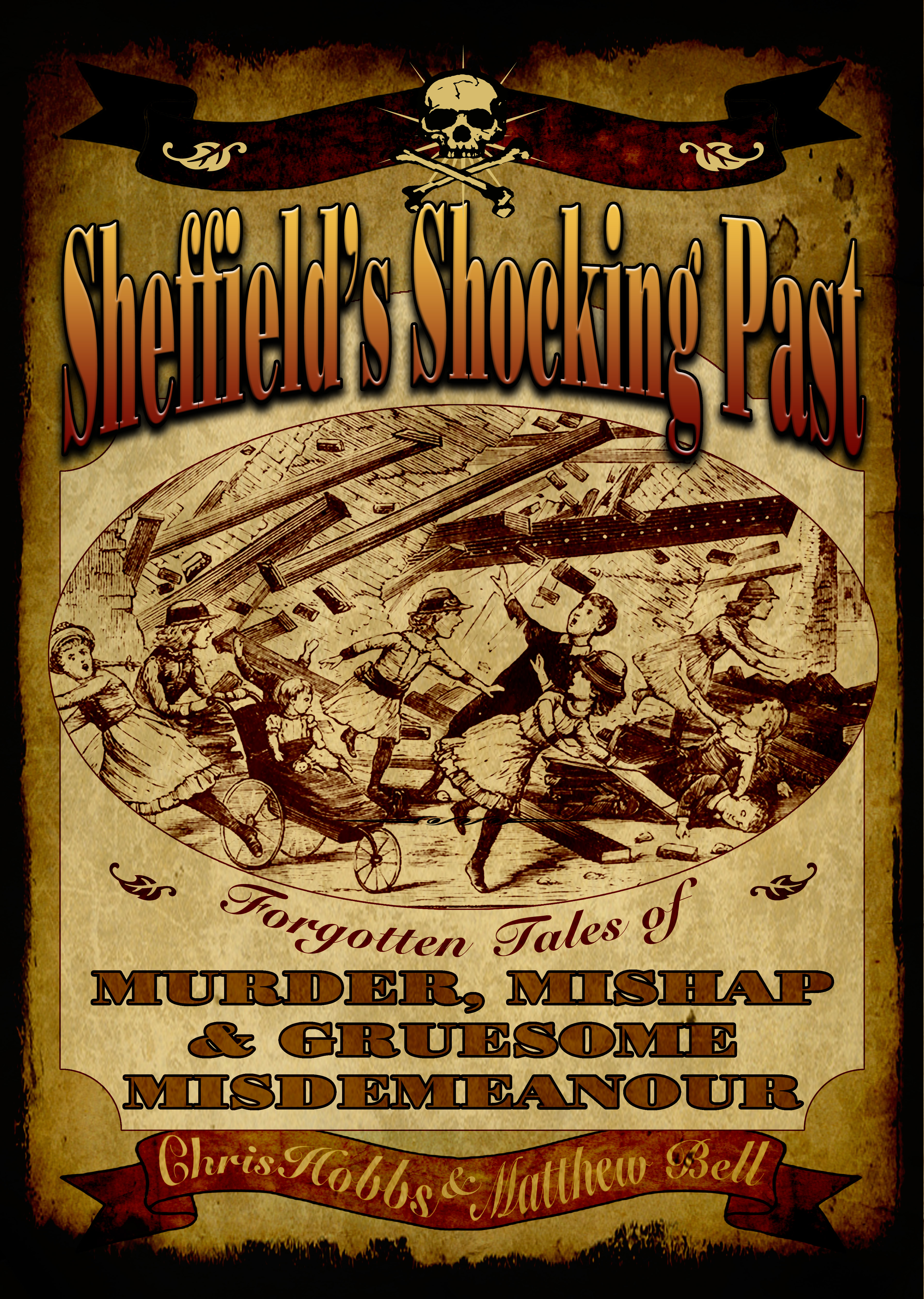 Front cover of Sheffield's Shocking Past by Chris Hobbs and Matthew Bell